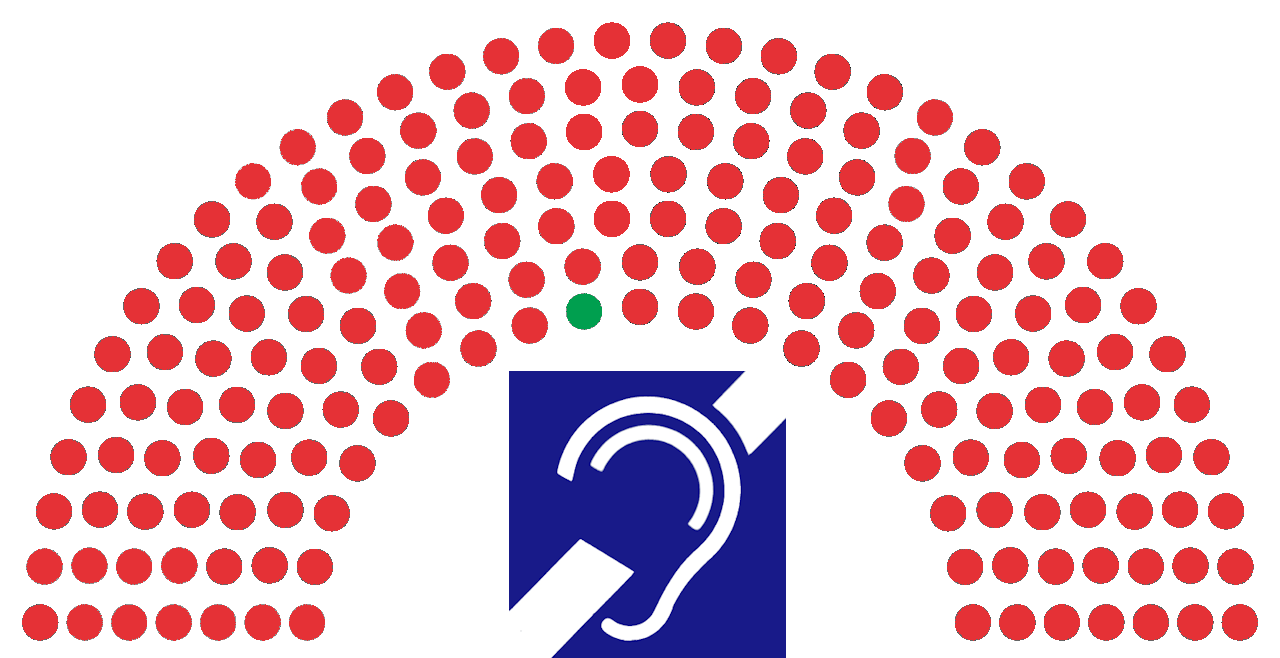 An illustration of the Second International Congress on Education of the Deaf. The green dot resembles the single deaf delegate who participated the congress. The rest of the delegates were hearing people.